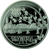 reverse of the silver coin 1120 the city of Uzhgorod